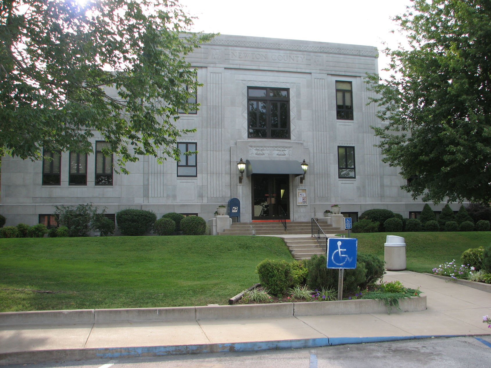 Photograph of entrance of Newton County Courthouse in Neosho, Missouri. Taken in August, 2006, by RebelAt. The Newton County Courthouse is on the National Register of Historic Places as a contributing structure in the Neosho Commercial Historic District, registration number 93000772.[1]